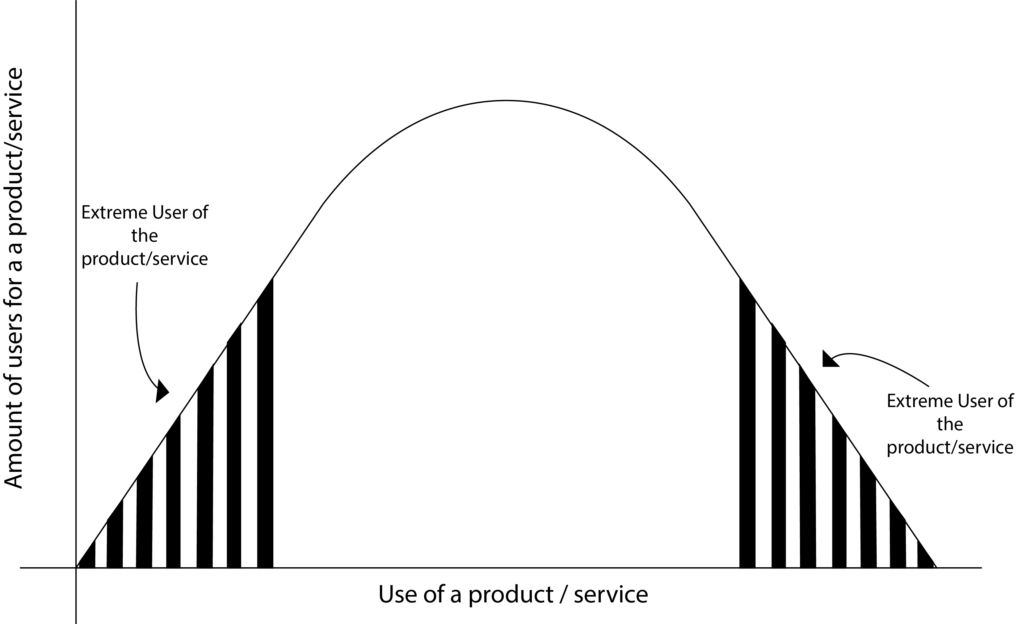 An example of extreme users of a product/service within the marketplace. The peak in the middle of the graph represents average users, where the bellcurve subsides is where extreme users of a product are found.